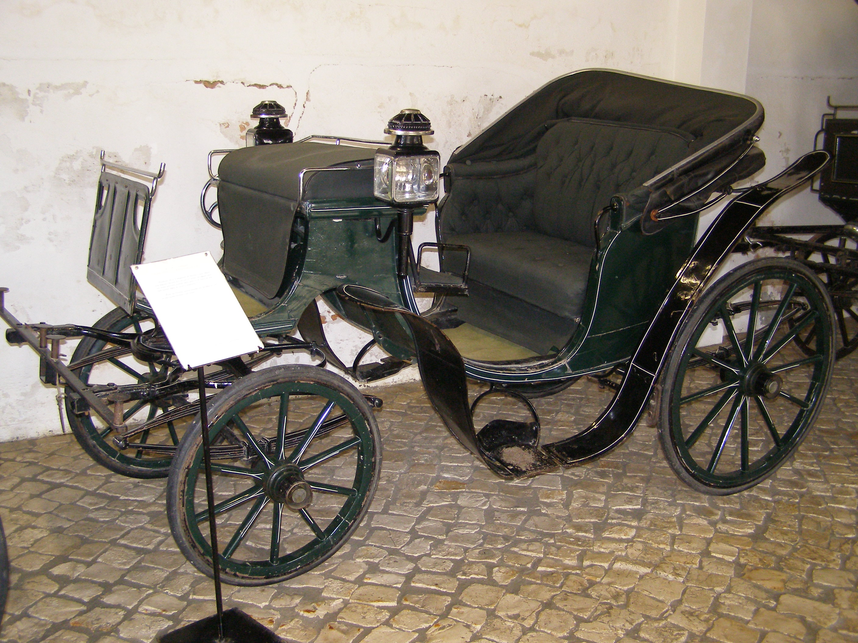 Park Phaeton. Tapada Nacional de Mafra, Portugal.